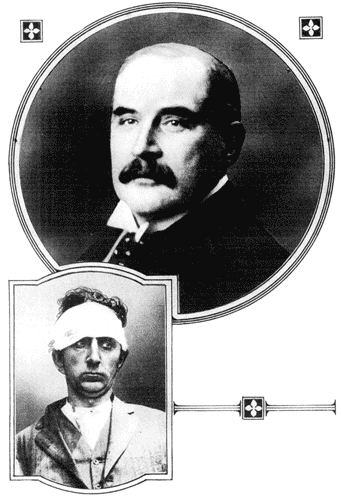 John Pierpont Morgan junior (1867-1943), US entrepreneur, and his assailant, Frank Holt (1871-1915)